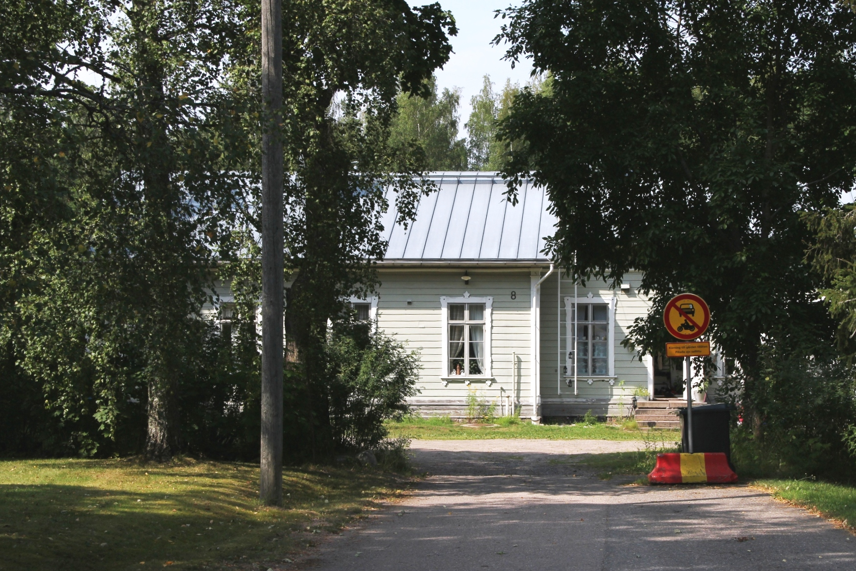 Now privately owned Svartå railway station, Karis, Finland